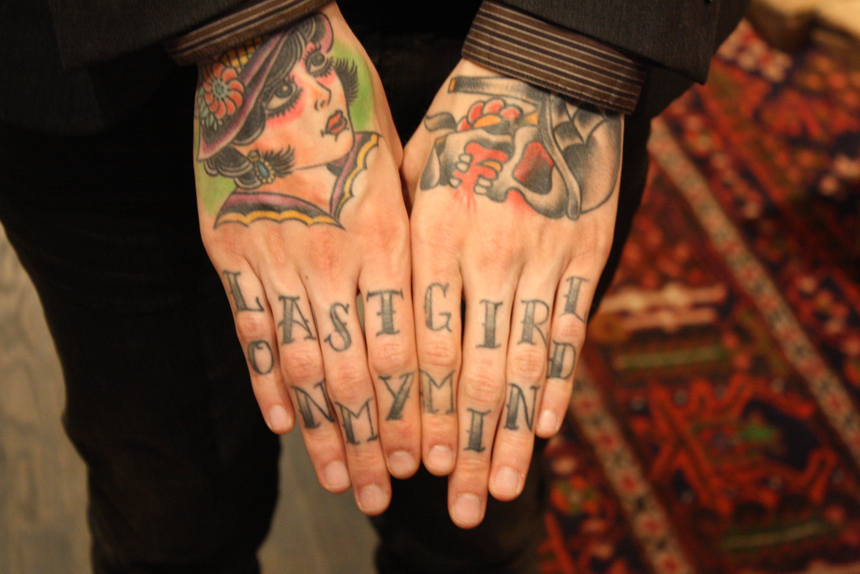 "Last girl on my mind" “I cried a little when we left this former mecca of musical innovation.” —Angie Garrett CBGB 2009-05-09 References for this description (or part of this) or for the depiction in the file are not provided.